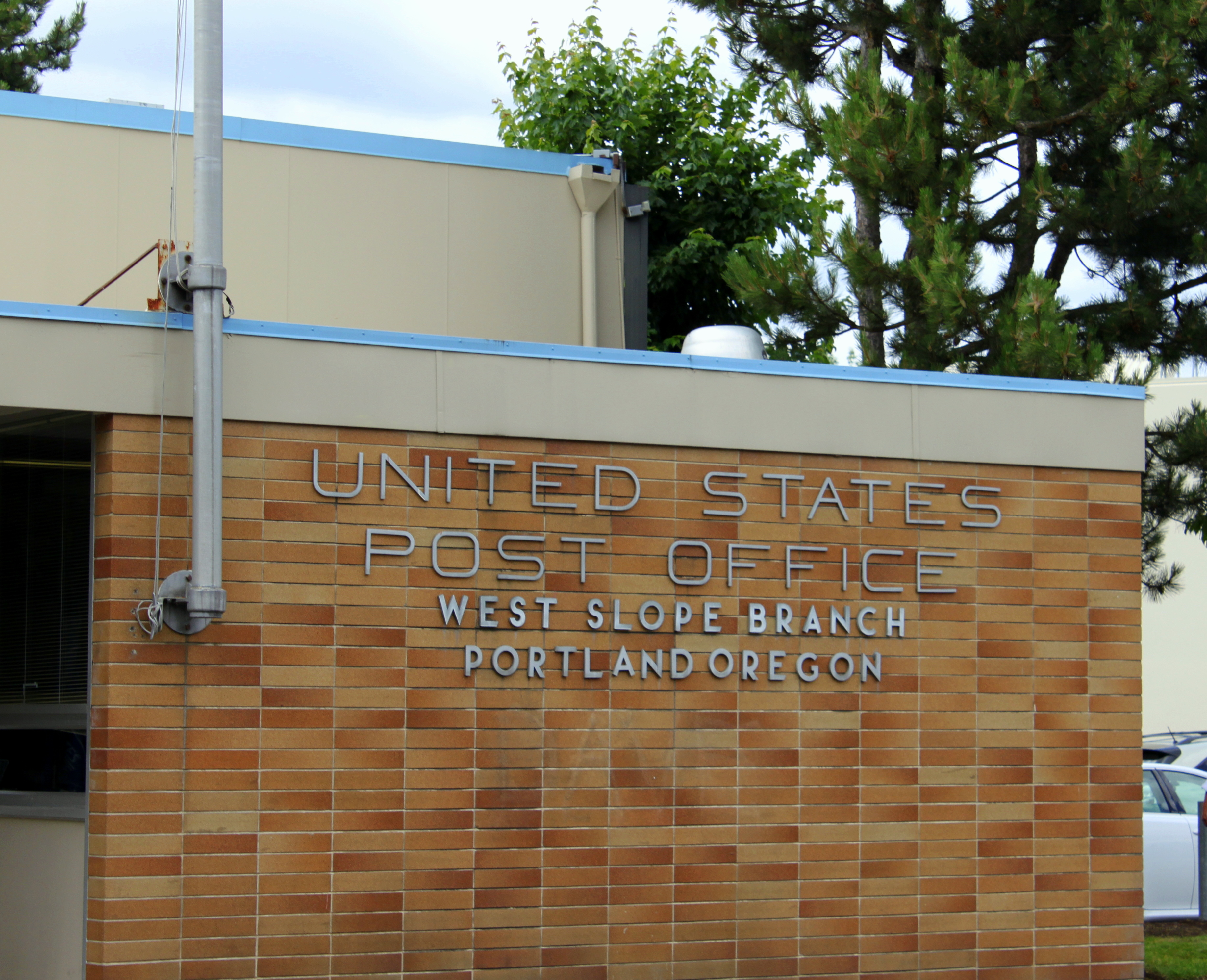 Post office in West Slope, Oregon, near Portland, Oregon